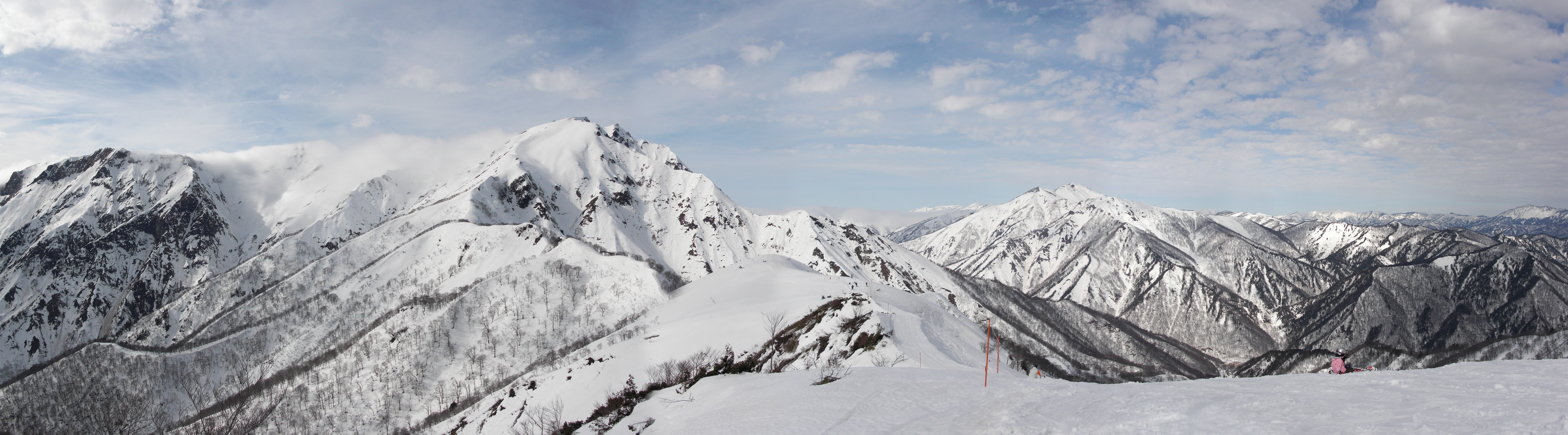 From the Tenjindaiira skiing area Tenjintouge lift mountaintop a photograph of eight pieces of photography a composition panorama